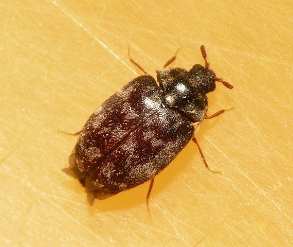 Anthrenocerus australis, Location: The Netherlands, Rhenen, Blauwe Kamer